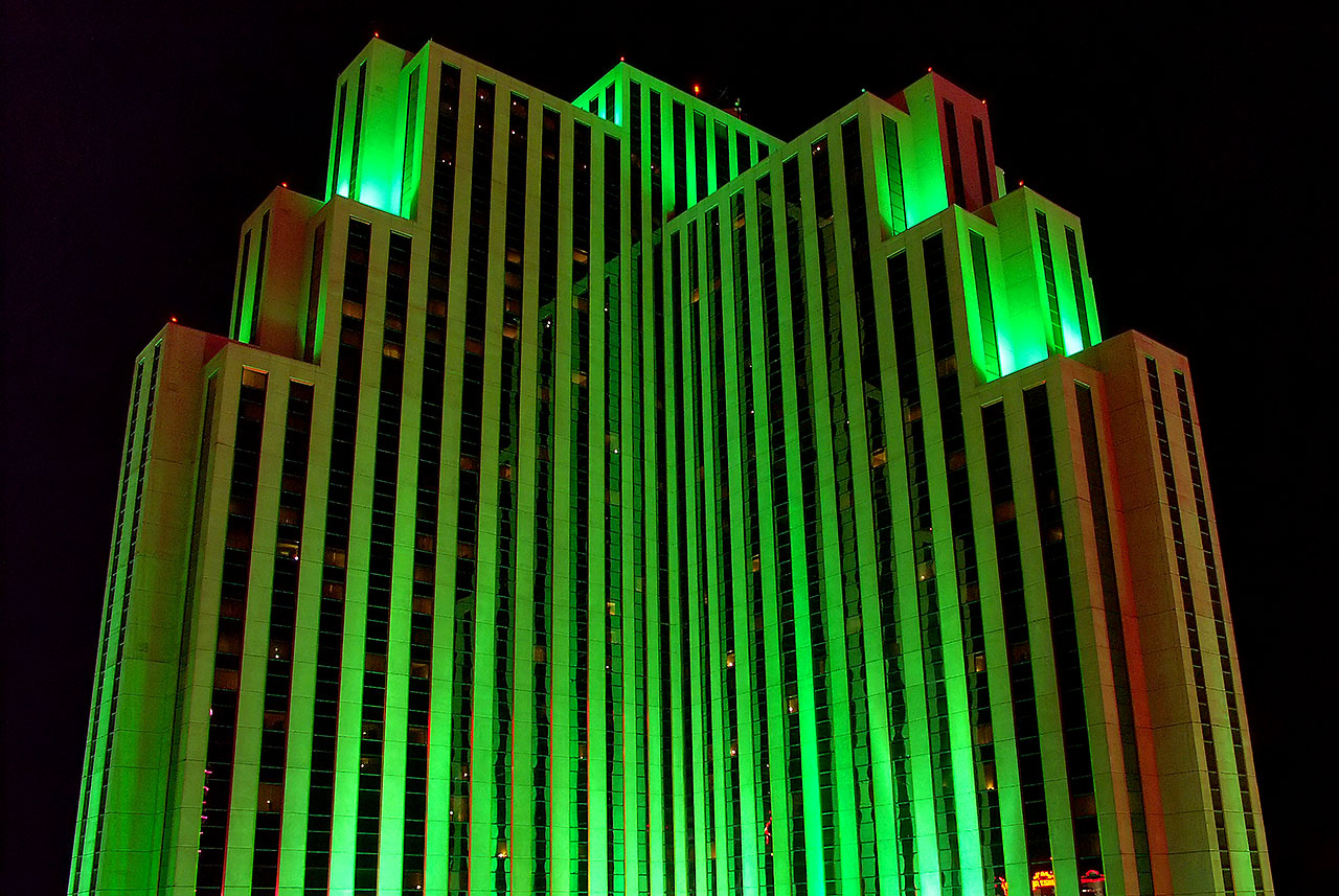 The "Silver Legacy Resort Casino" (thanks to RenoDave for this hint). This photo has been published on following website